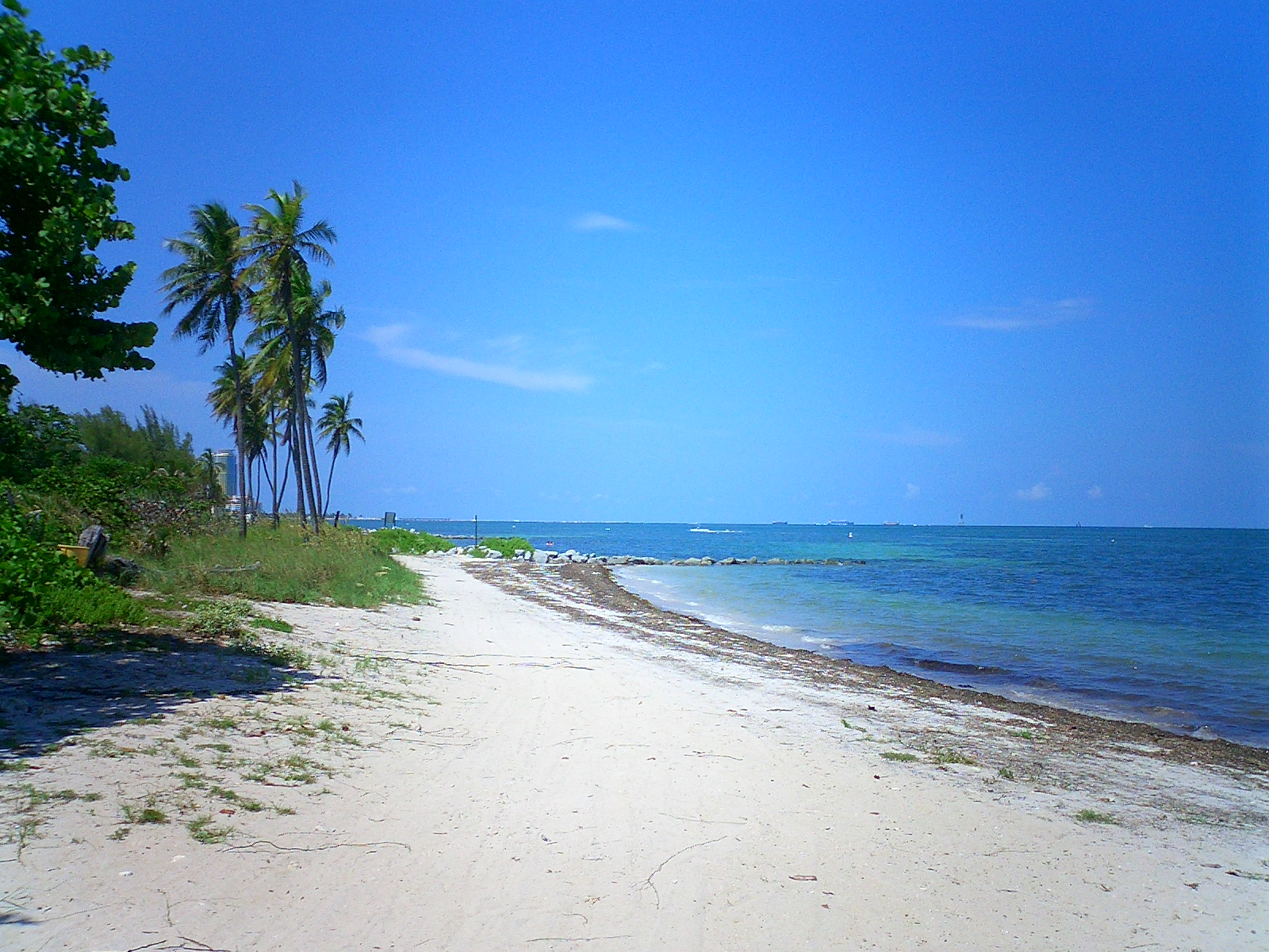 Beach on Virginia Key, Florida just south of Miami Beach's South Beach.